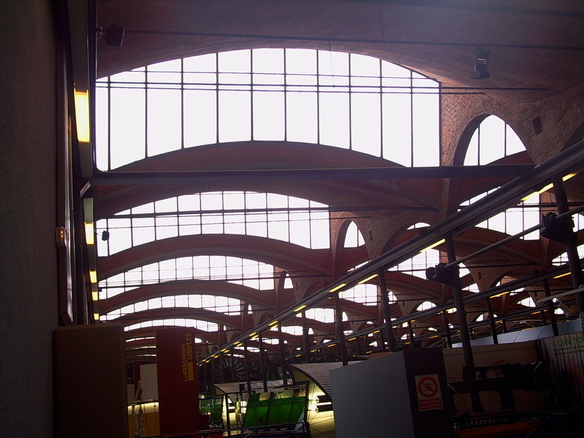 Inside of the catalan vault from the production plant of the textile factory, at the mNATECT, Terrassa, (Catalunya).